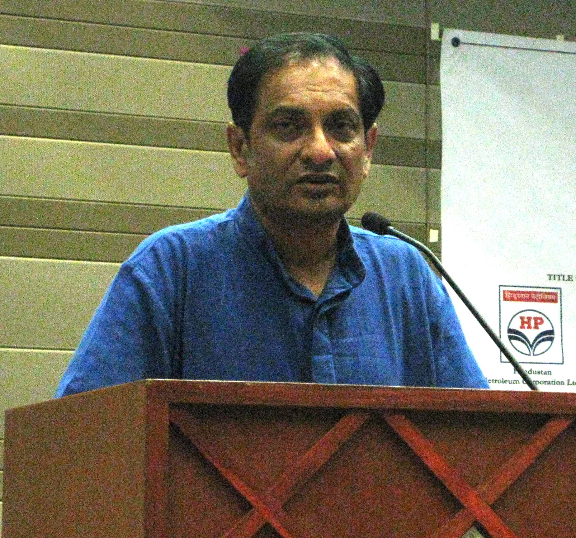 Binayak Sen in Mumbai, 2009